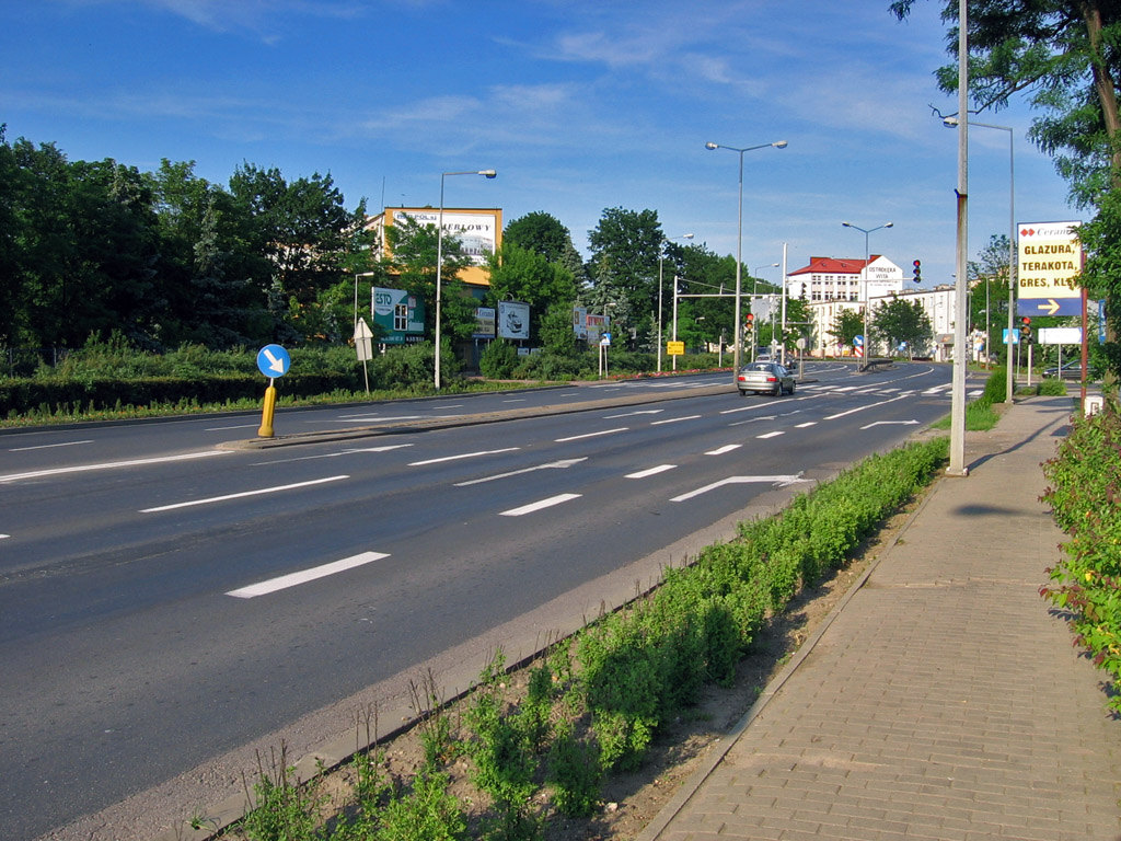 City of Ostroleka (Poland), Traugutta Street.